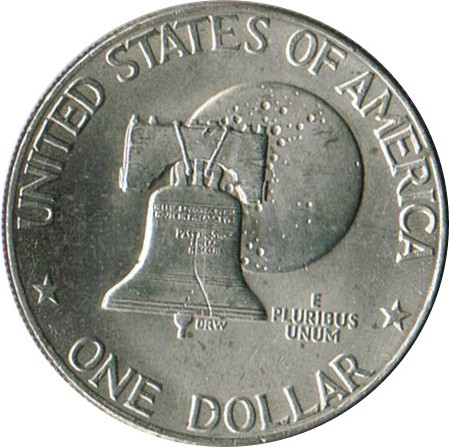 Scan of the Bicentennial Eisenhower dollar (Type 2) featuring the Liberty bell on its reverse.